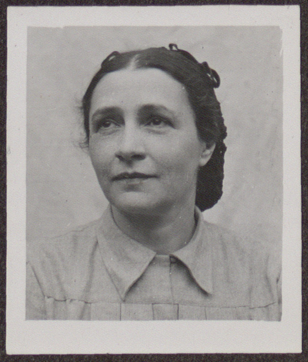 Irena Krzywicka – Polish feminist, writer, translator, activist for women's rights (picture taken in the years of the occupation of Poland by Nazi Germany).